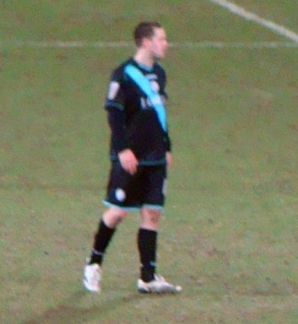 Cardiff V Leicester, FA Cup 4th Rd, Cardiff City Stadium, Cardiff, Wales